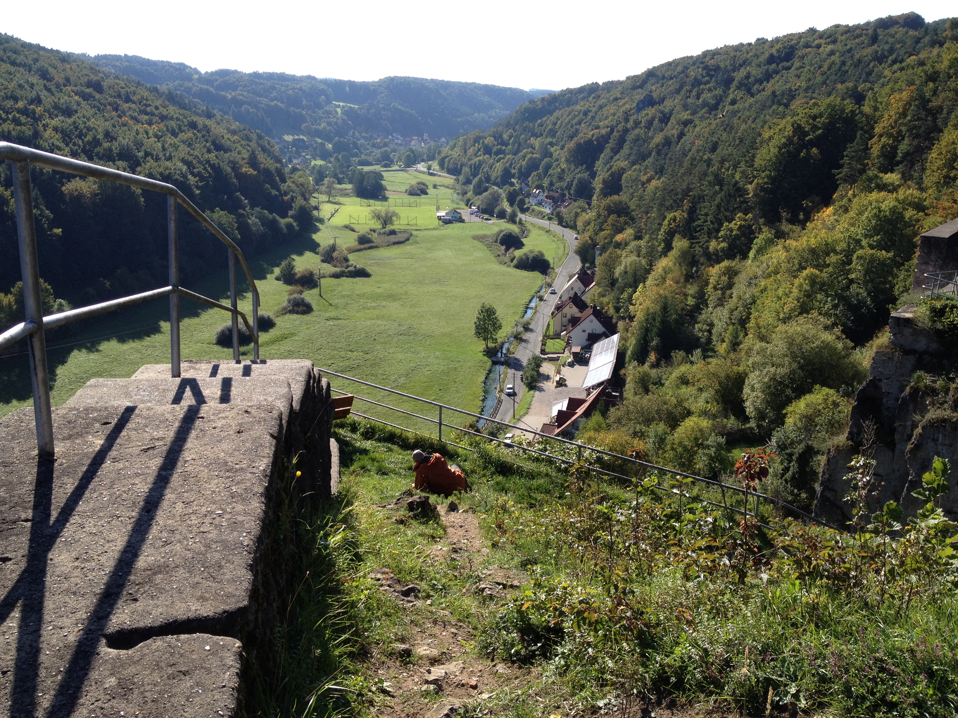 duitsland - bayern - franken - oberfranken - fränksiche-schweiz - trubachtal - wolfsberg - burgruine-wolfsberg